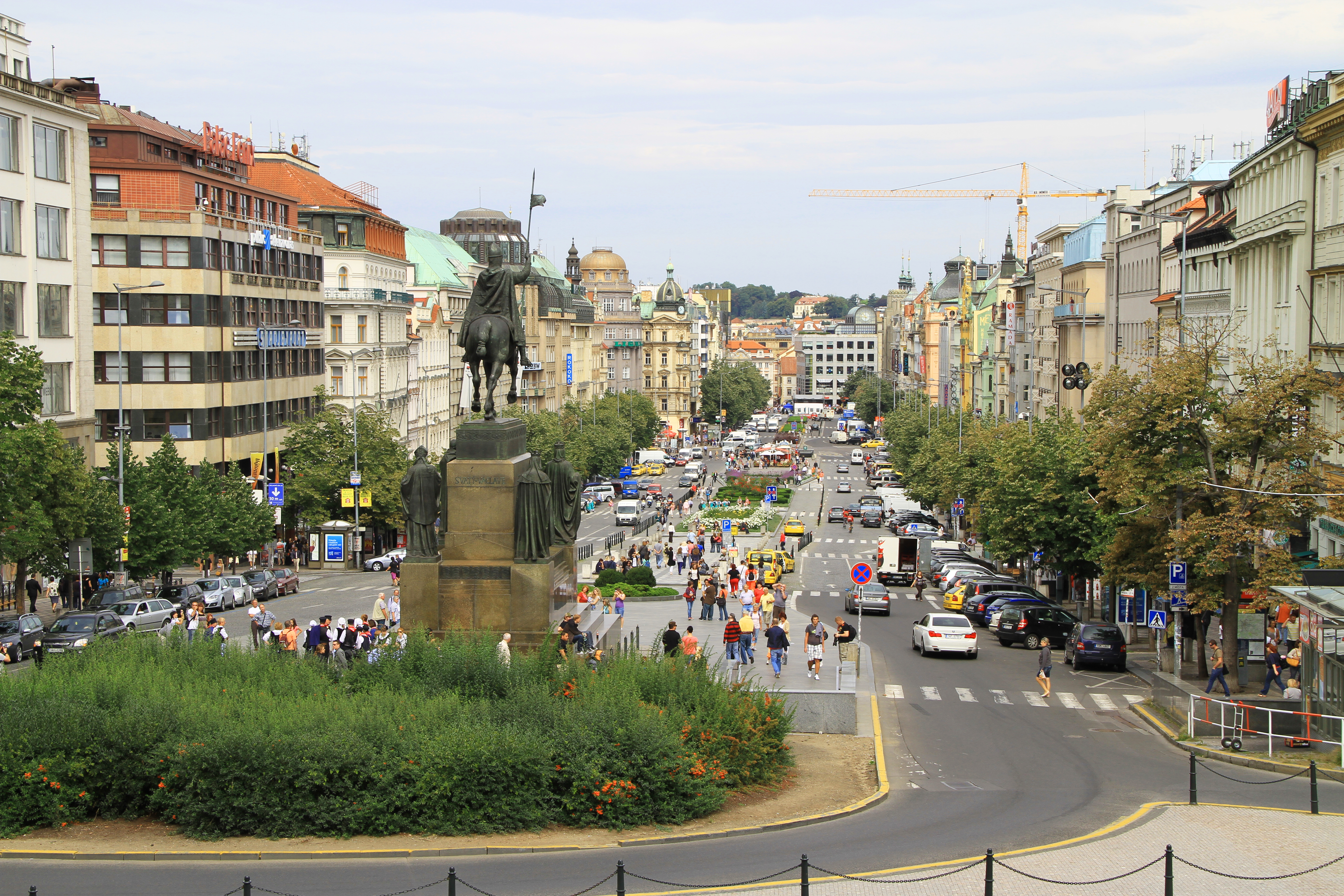 Praque, Wenceslas Square